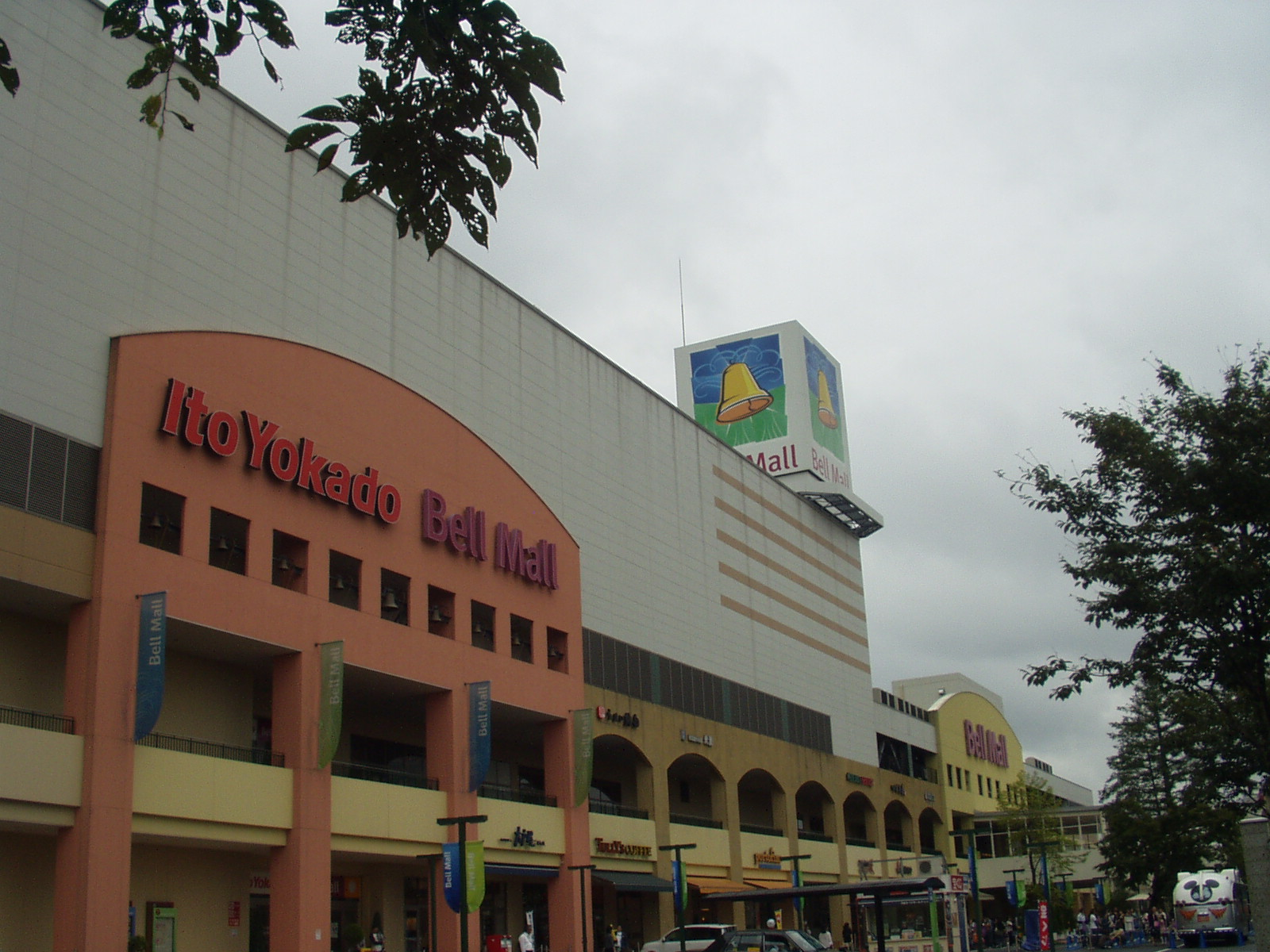 Bell Mall, Shopping Center in Utsunomiya, Tochigi,Japan.